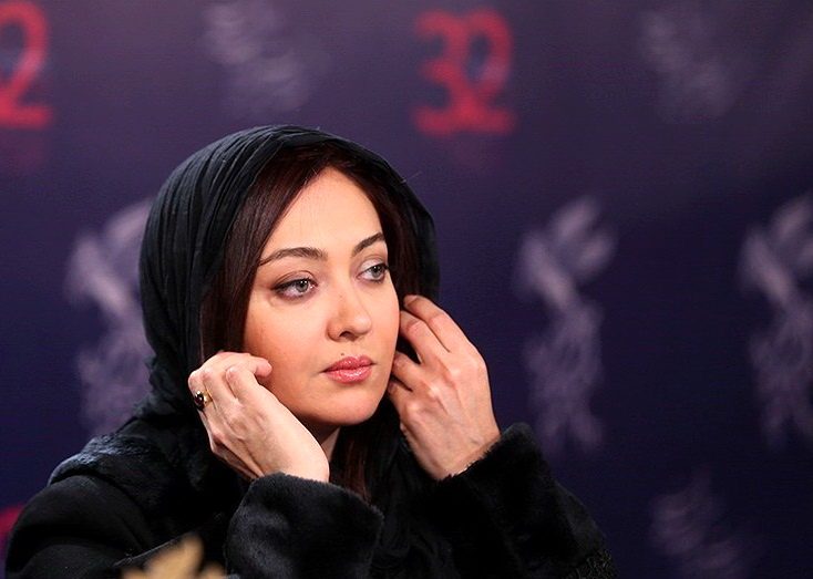 Niki Karimi in Press Conference of Zendegi Jay e Digari Ast